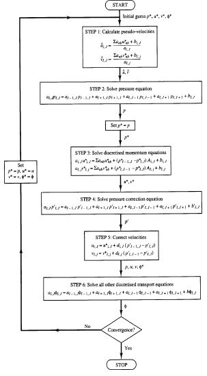 Flow chart for the SIMPLER Algorithm